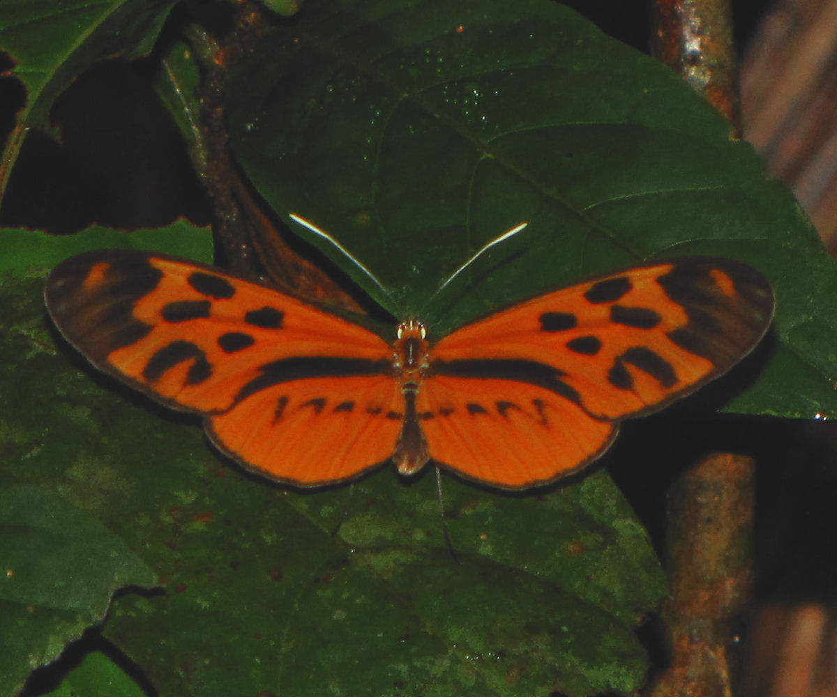 Olivencia Tigerwing (Forbestra olivencia), dorsal, Tambopata Park, Peru